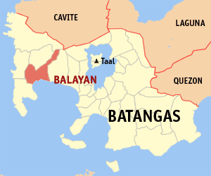 Map of Batangas showing the location of Balayan